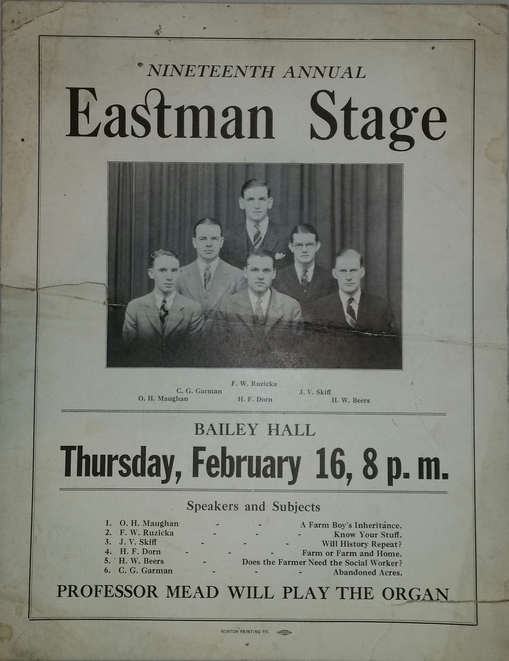 Poster of the Eastman Stage Competition, Cornell University, 1928